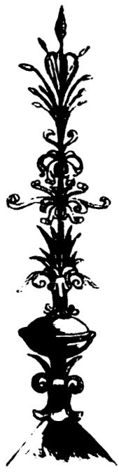 iron gableear